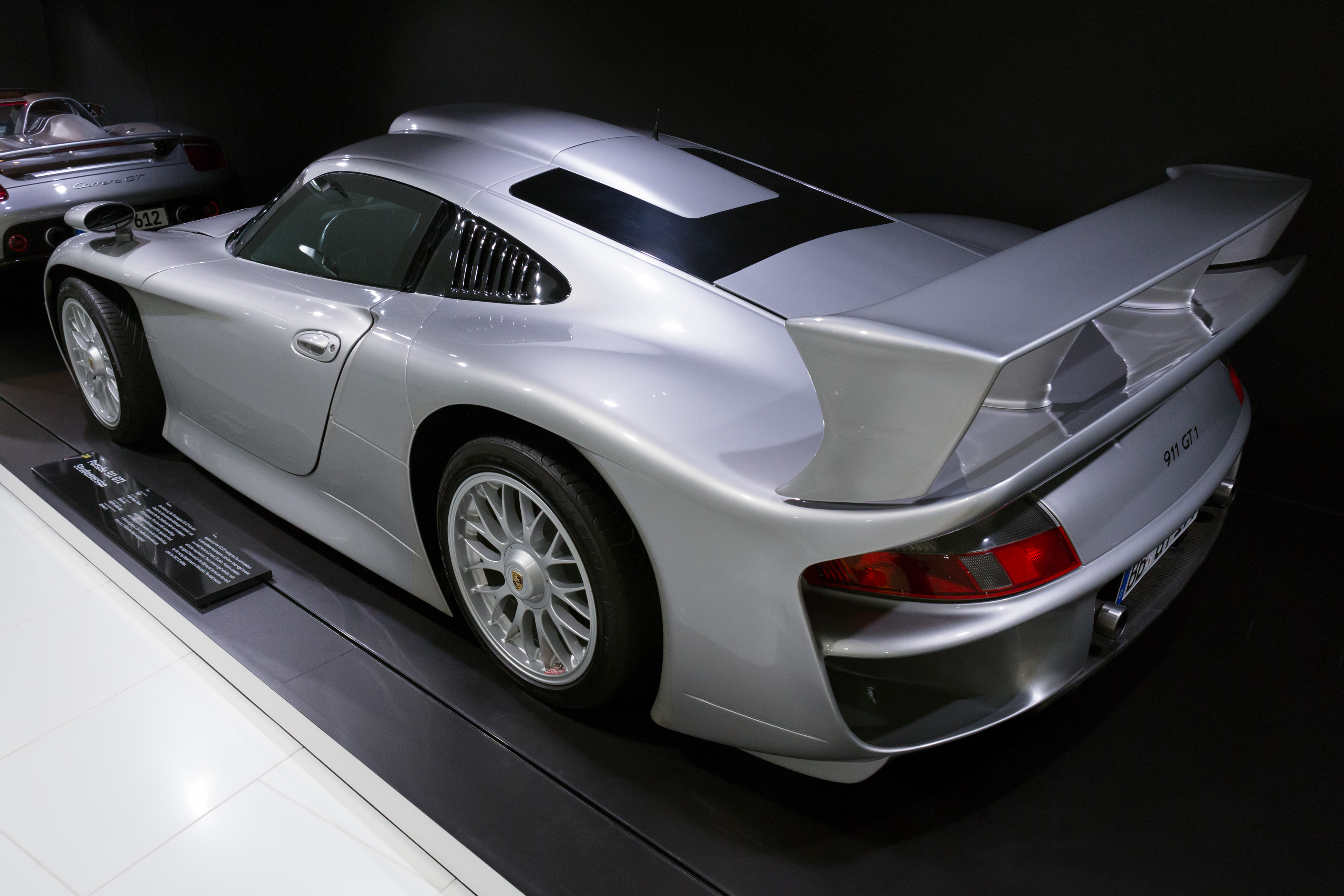 1997 Porsche 911 GT1 street version